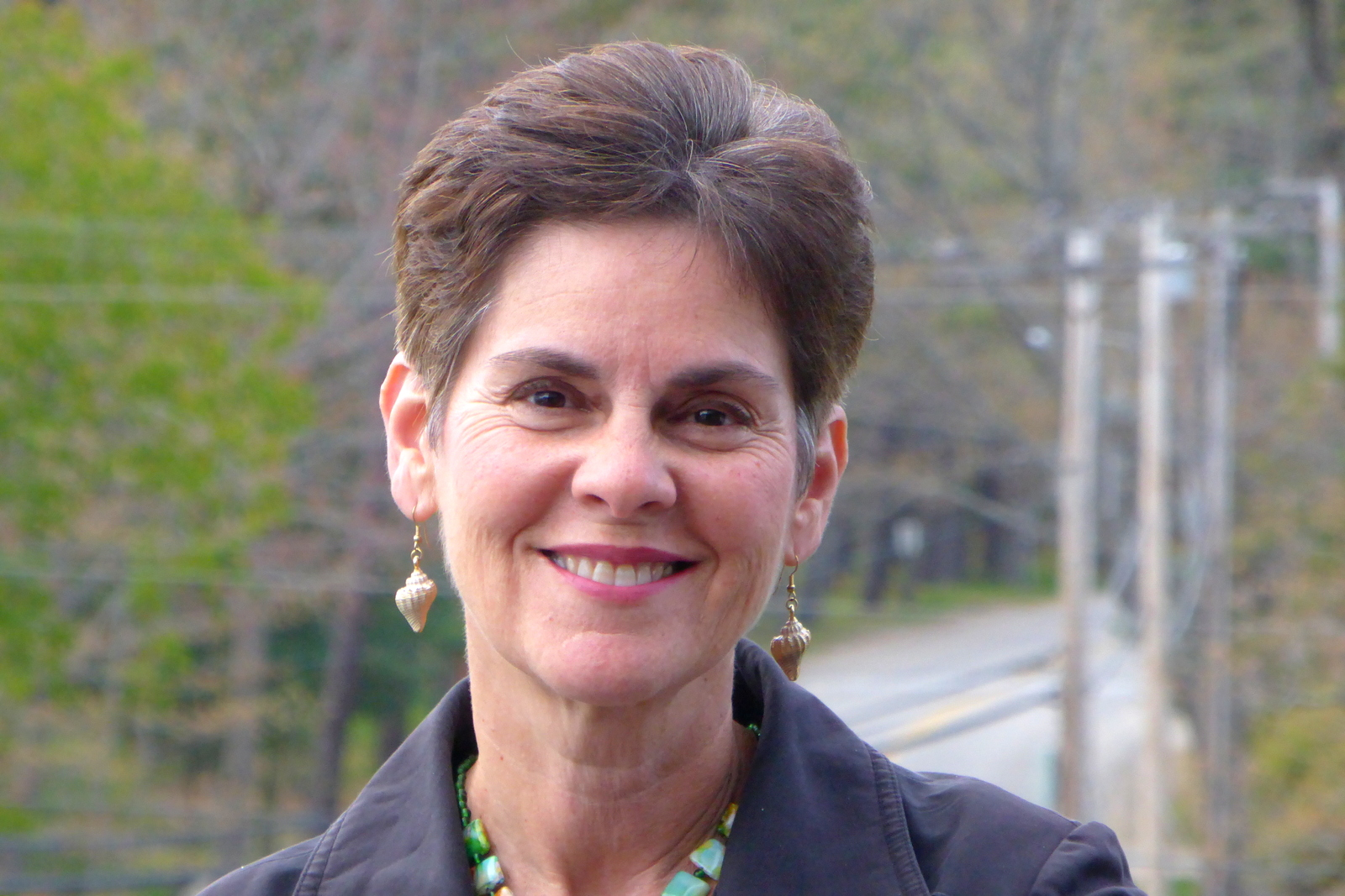 Headshot of author and aviation expert Christine Negroni